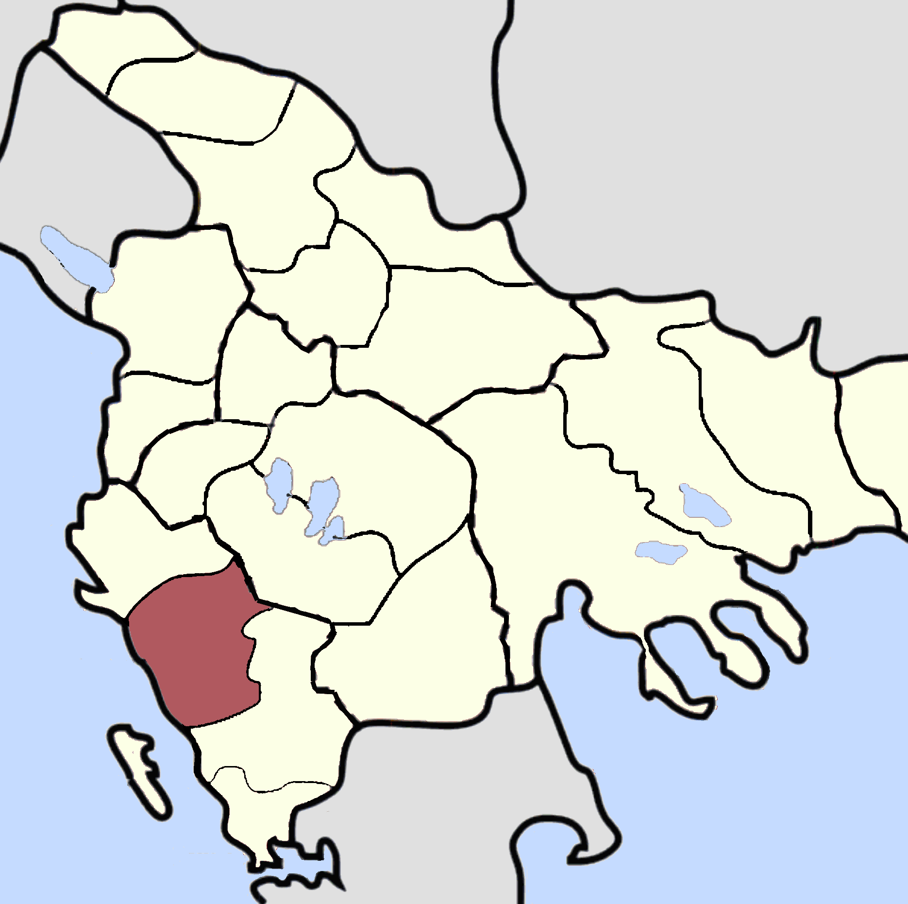 XY Sanjak, Ottoman Empire (late 19th century). Source: The Crescent and the Eagle- Ottoman Rule, Islam and the Albanians, 1874-1913 at Google Books By George Gawrych